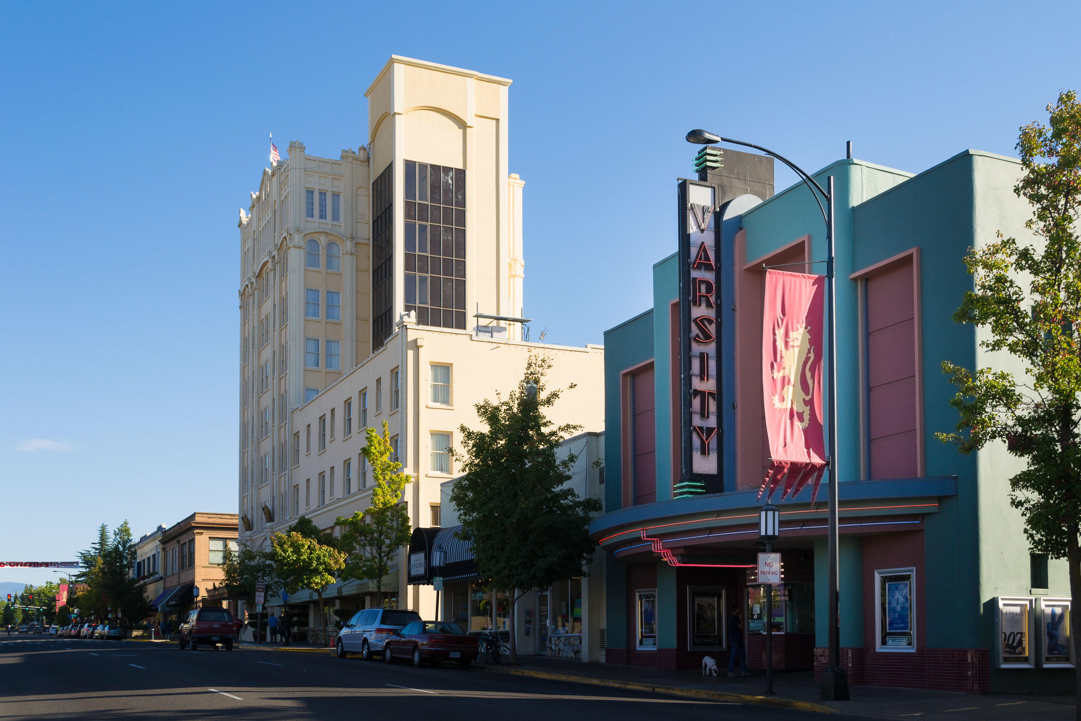 The Varsity Theater in Ashland